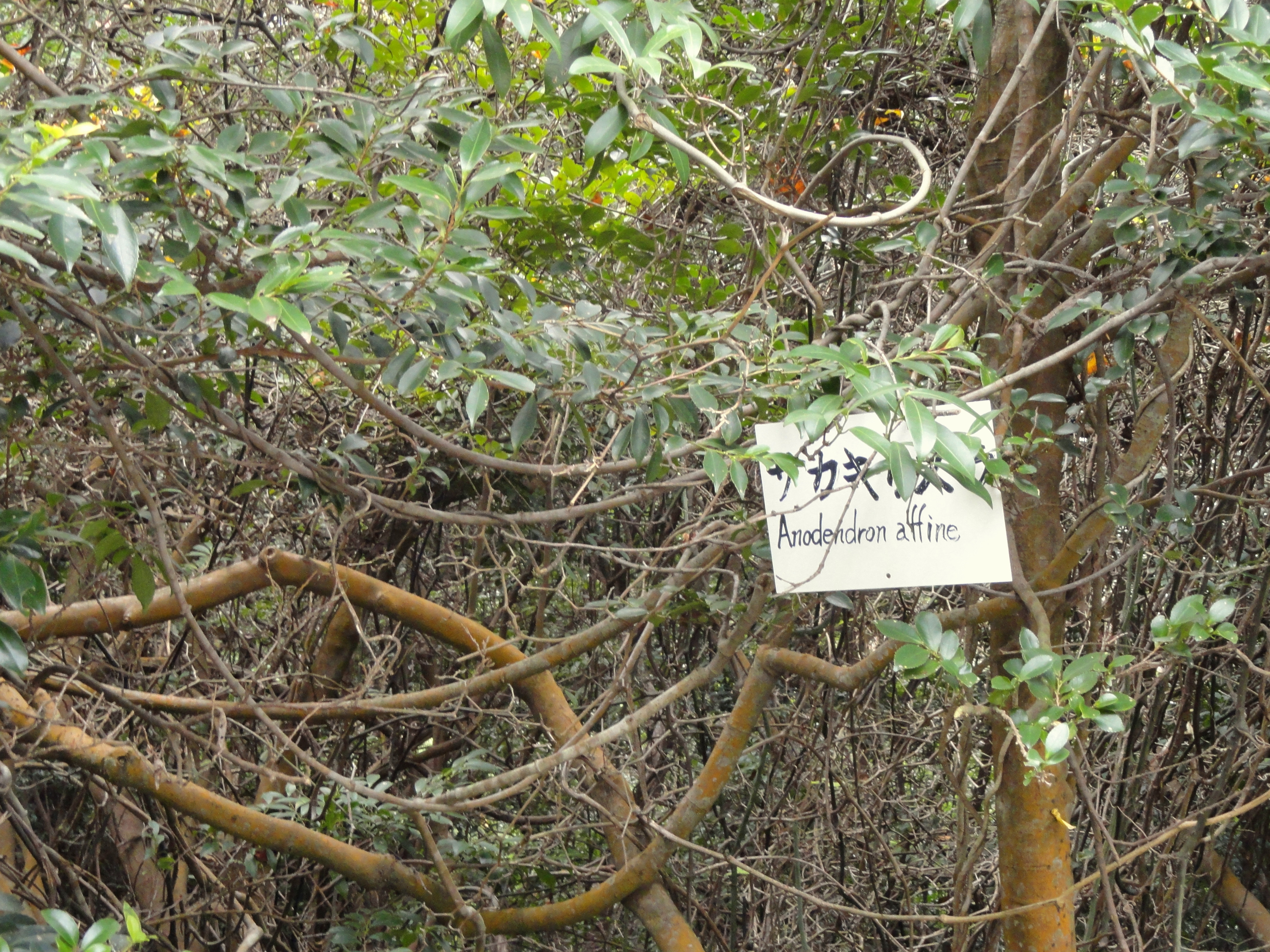 Botanical specimen in the Miyajima Natural Botanical Garden, Hatsukaichi, Hiroshima, Japan.